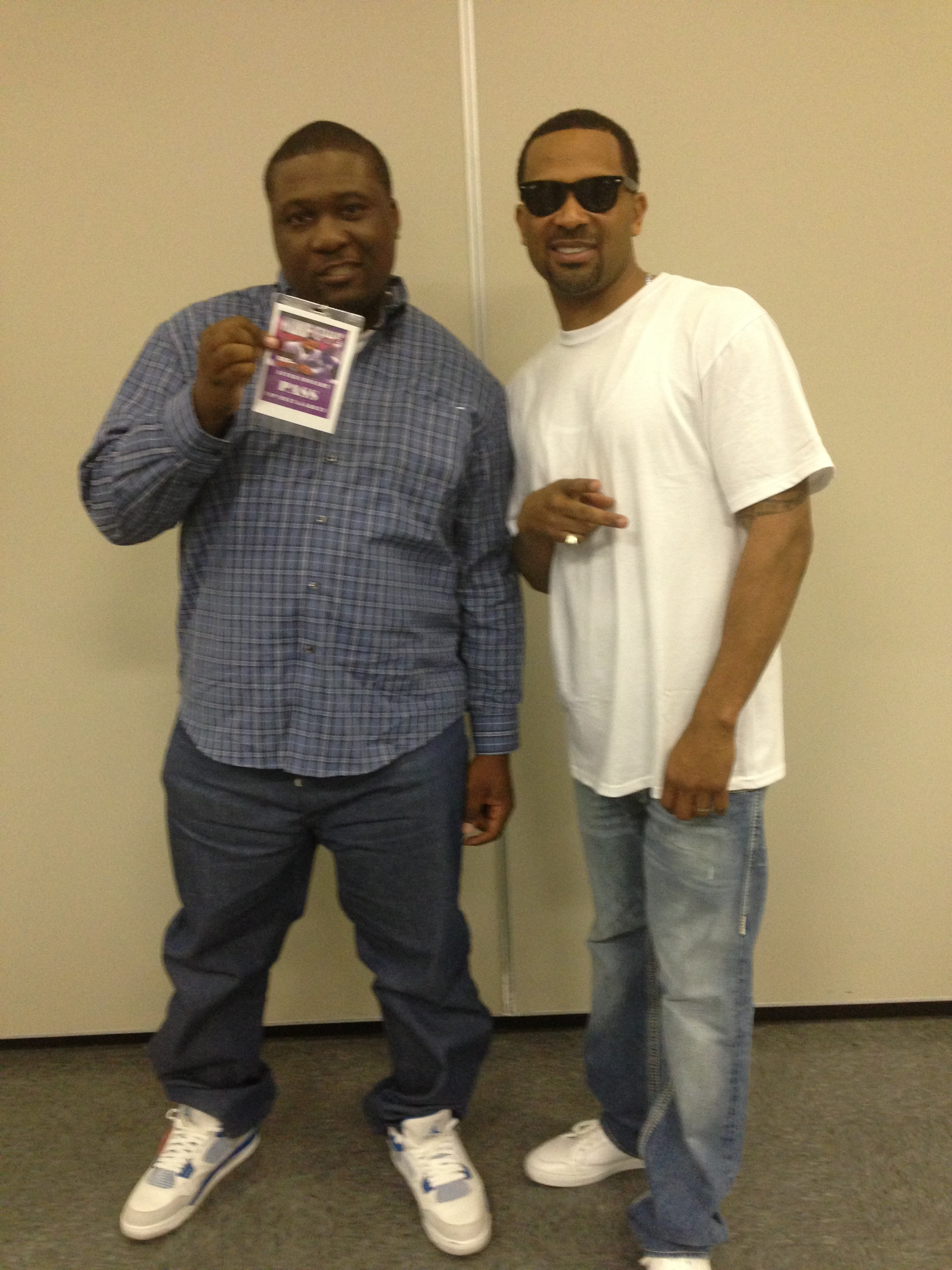 Mike Epps & a fan in Houston February 1, 2013